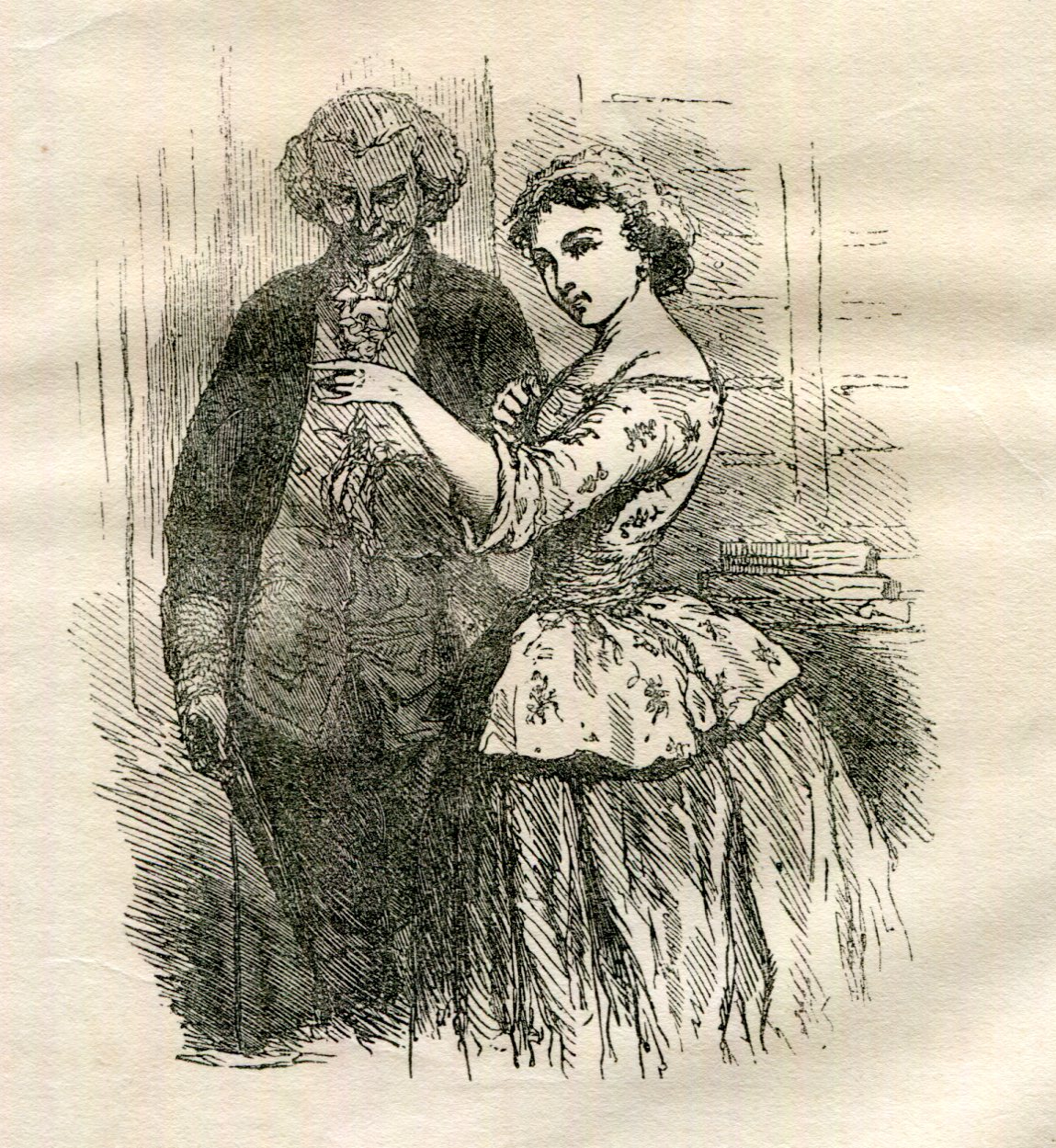 Illustration from A Sentimental Journey Through France and Italy by L. Sterne: Madame de L. and Rev. Yorick (engraving by Bertall)